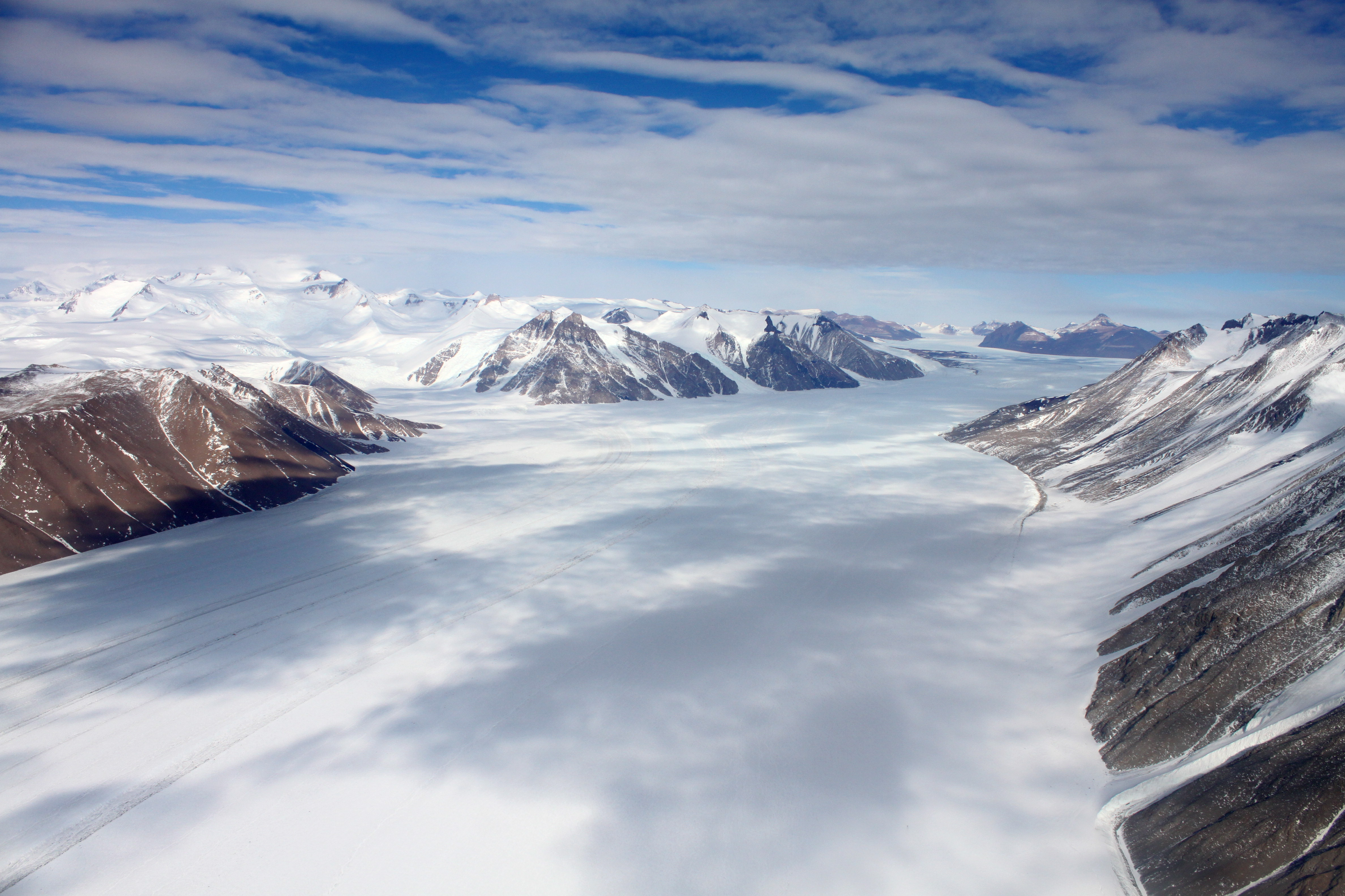 Helicoptering the Dry Valleys